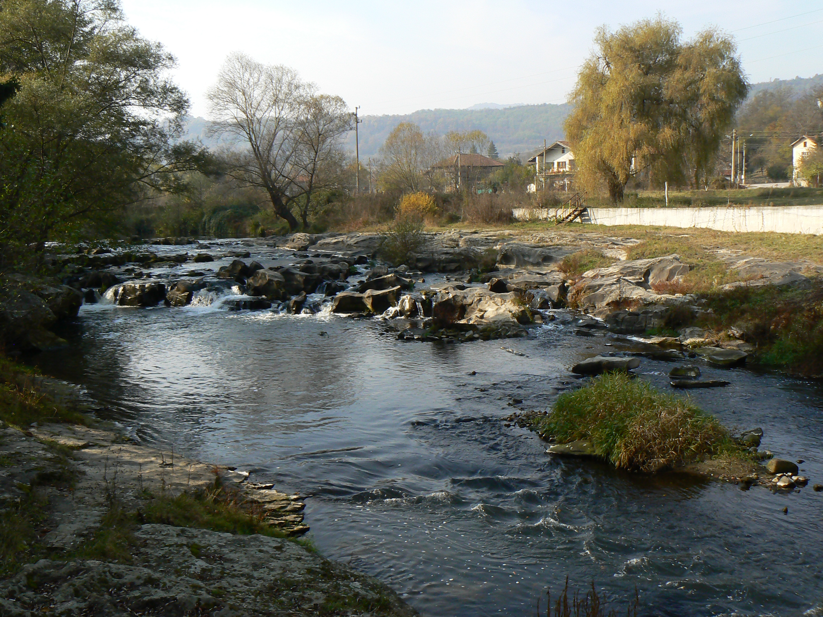 The Bebresh river flowing through the Bulgarian village Bozhenitsa.